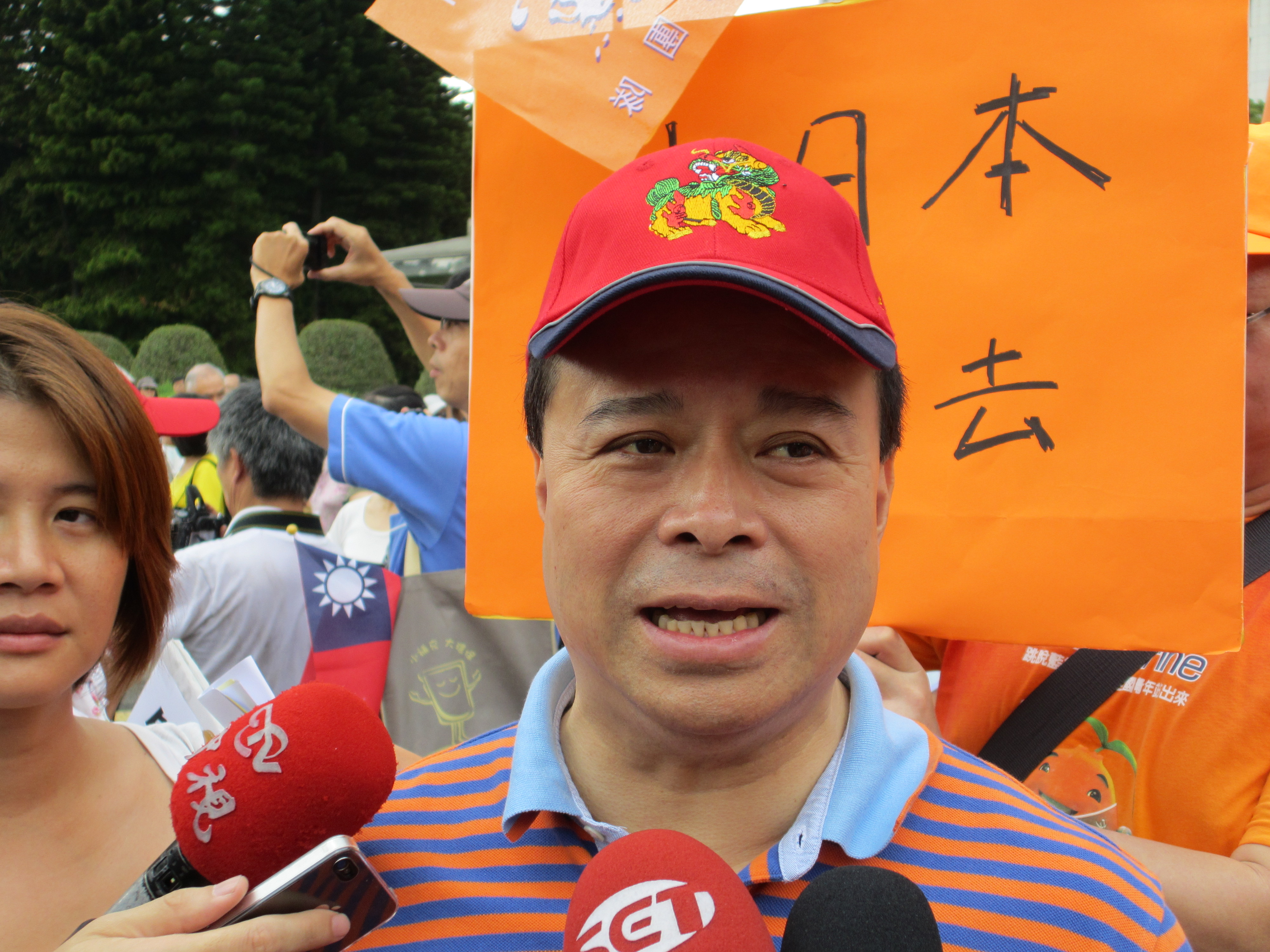 Liu Wen-hsiung